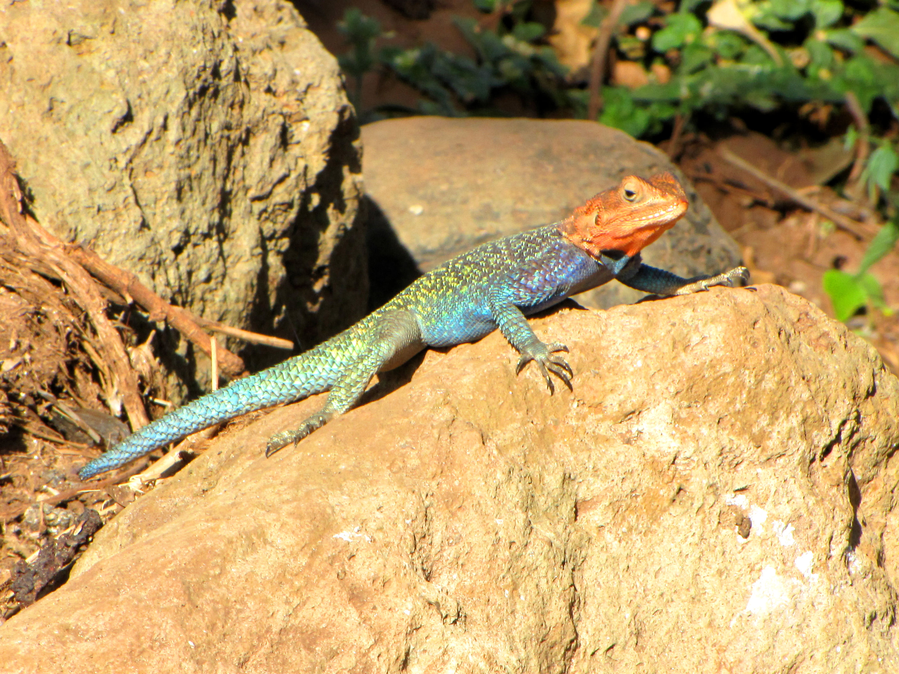 Kenyan Rock Agama (Agama lionotus elgonis), Serengeti National Park, Tanzania